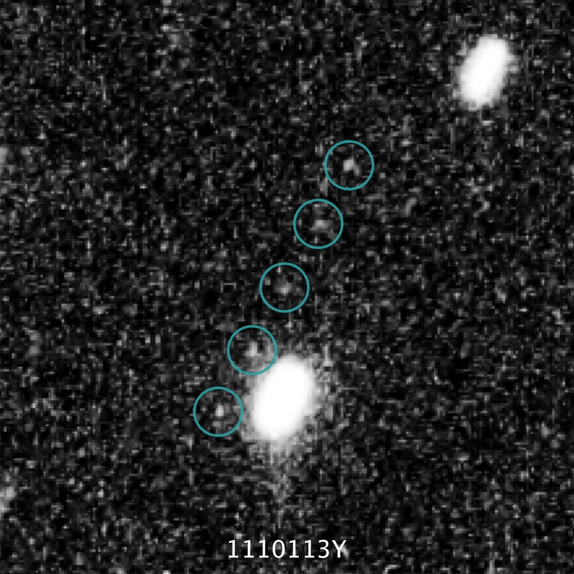 An annotated overlay of 5 Hubble Space Telescope Wide Field Camera 3 discovery images of 2014 MU69 taken on June 24, 2014. The images were taken at 10-minute intervals. The positions of 2014 MU69 in the 5 images are shown by the green circles.